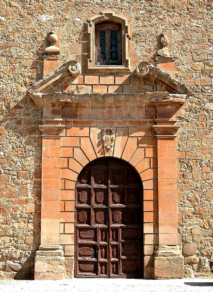 Butsènit d'Urgell, municipality of Montgai, la Noguera, Catalonia. Church of the Assumption.Baroque building from 1748.